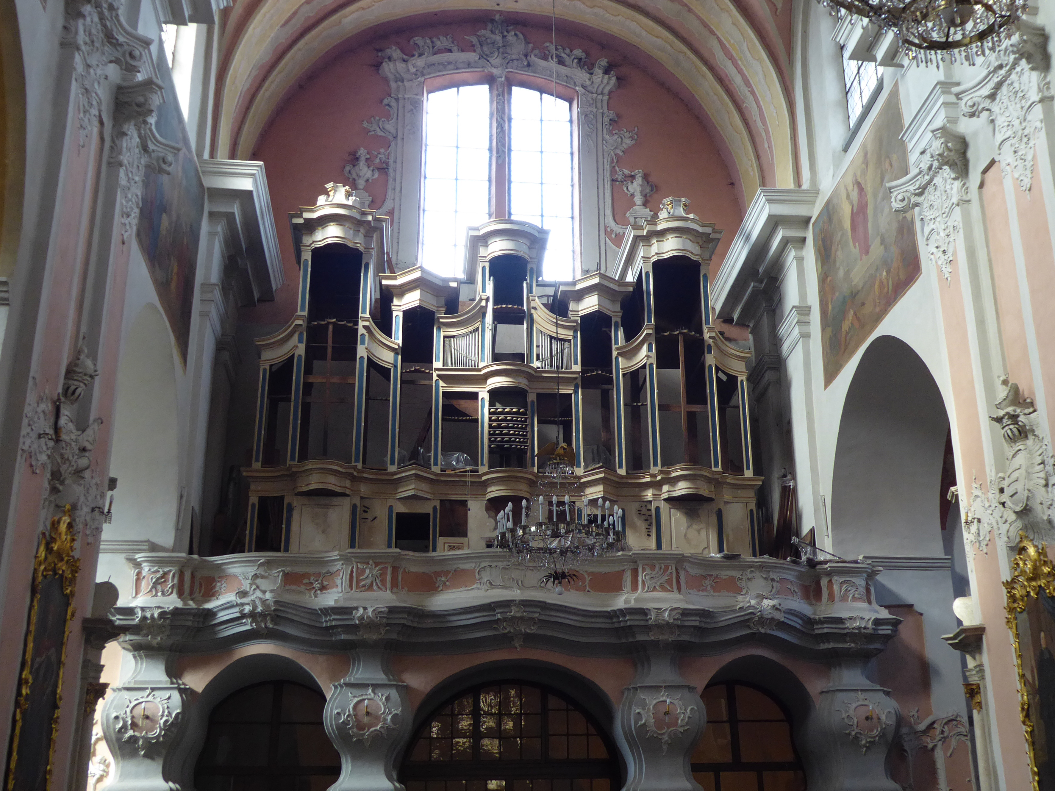 Organ of the Church of the Holy Spirit in Vilnius, Lithuania